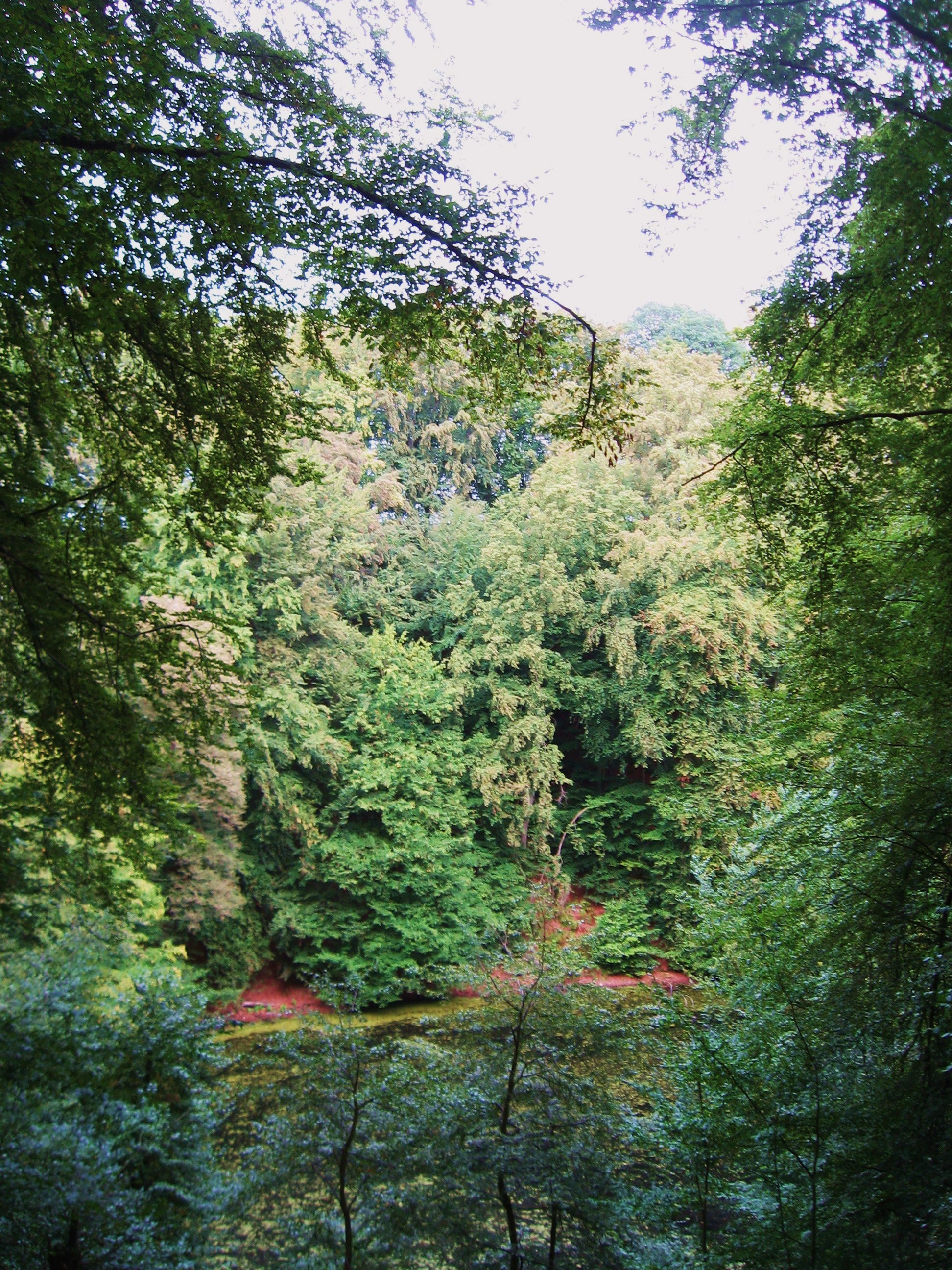 Germany / North Hesse: crater lake "Nasser Wolkenbruch" near Trendelburg